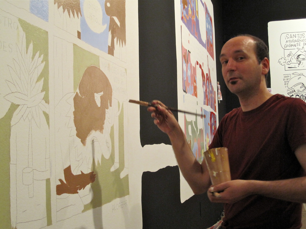 Spanish comic writer paco Alcázar